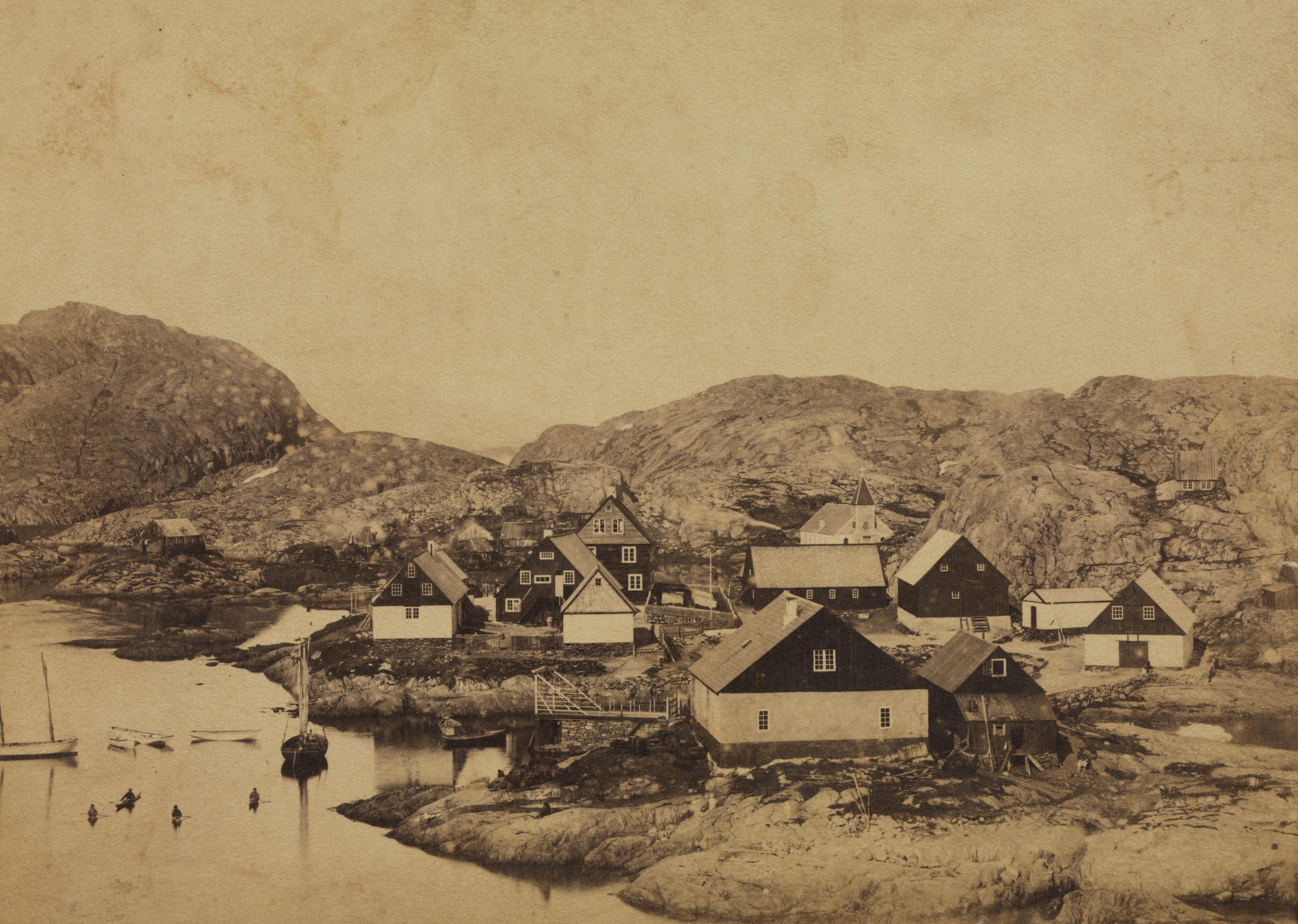 View of the harbor and the settlement in the summer.